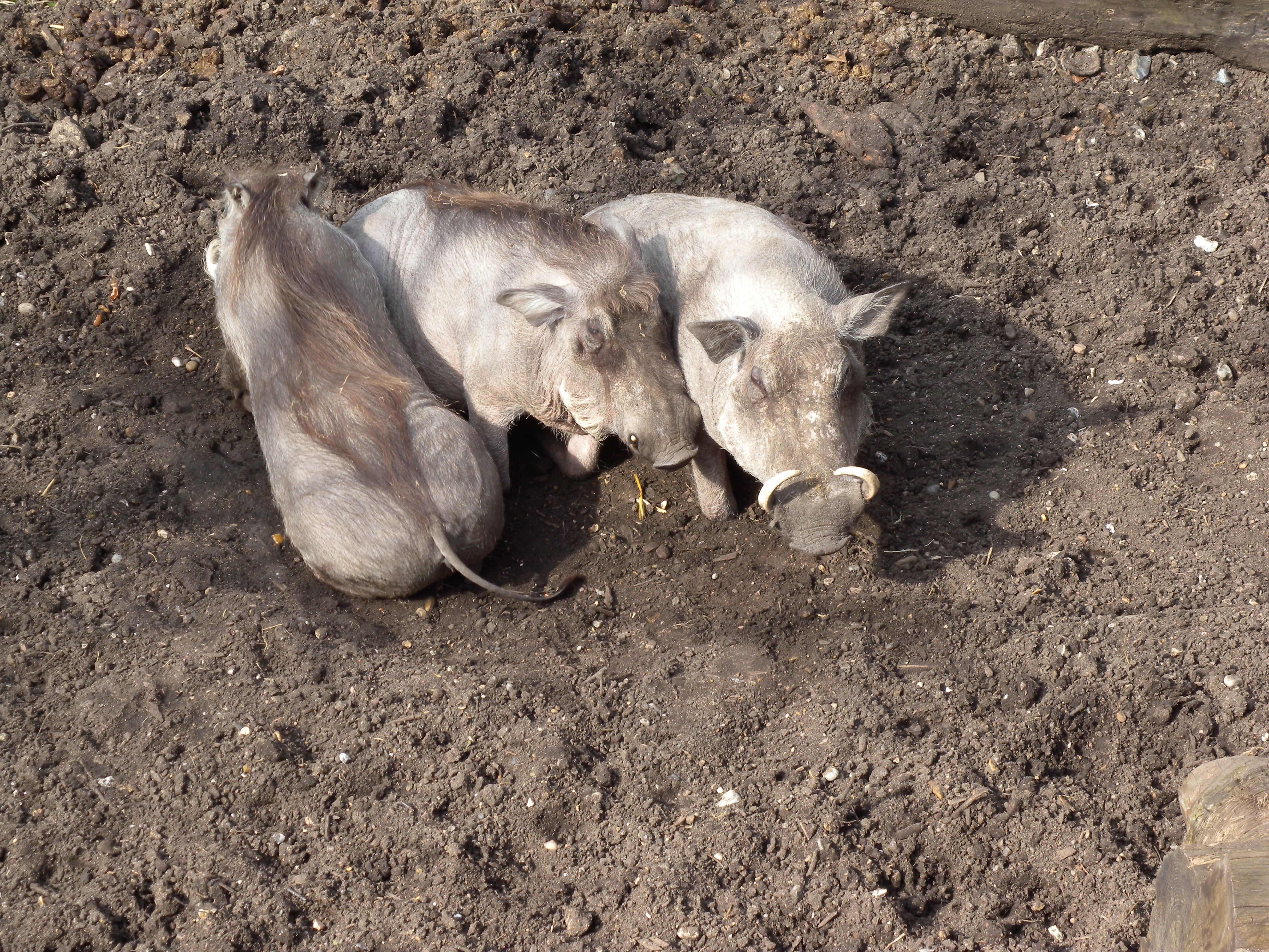 three warthogs sleeping in London zoo